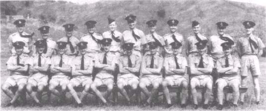 Officers of RAAF No 11 Squadron, Port Moresby, early 1941. Left to right, front row: Norman Fader, ...... , Keith Caldwell, ....... , .......... Wing Cmdr Alexander, Eric Sims, Sid Preston, Len Gray,......... Left to right, Back row: ...... , Bob Gurney, 'Goff Hemsworth, Hampshire ?, Keith Hannay, Mike Mather, Bill Purton, Brian Mullins ?, Bill Gibbs, George Mocatta ?, ........ (Photograph courtesy of the RAAF)